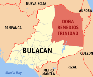 Map of Bulacan showing the location of Doña Remedios Trinidad